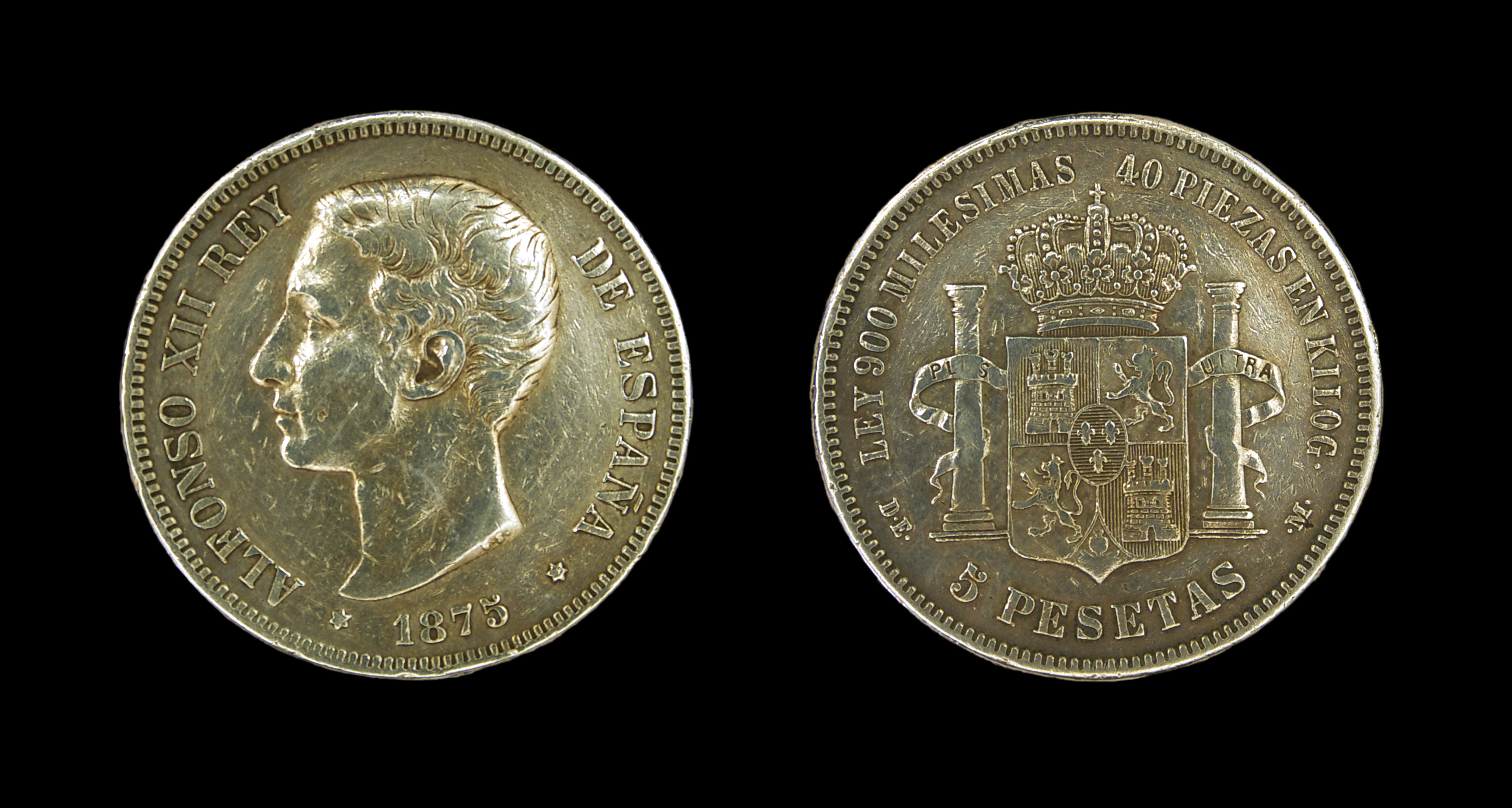 5 pesetas of Alfonso XII of Spain, 1875.